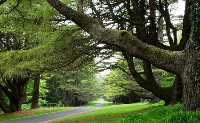 The Drive, Tollymore forest (1). Once through the Barbican Gate 805119 the drive to the house was on a grand scale. It still exists as an impressive avenue of Himalayan cedars, planted between 1835 and 1859. The view is inward.